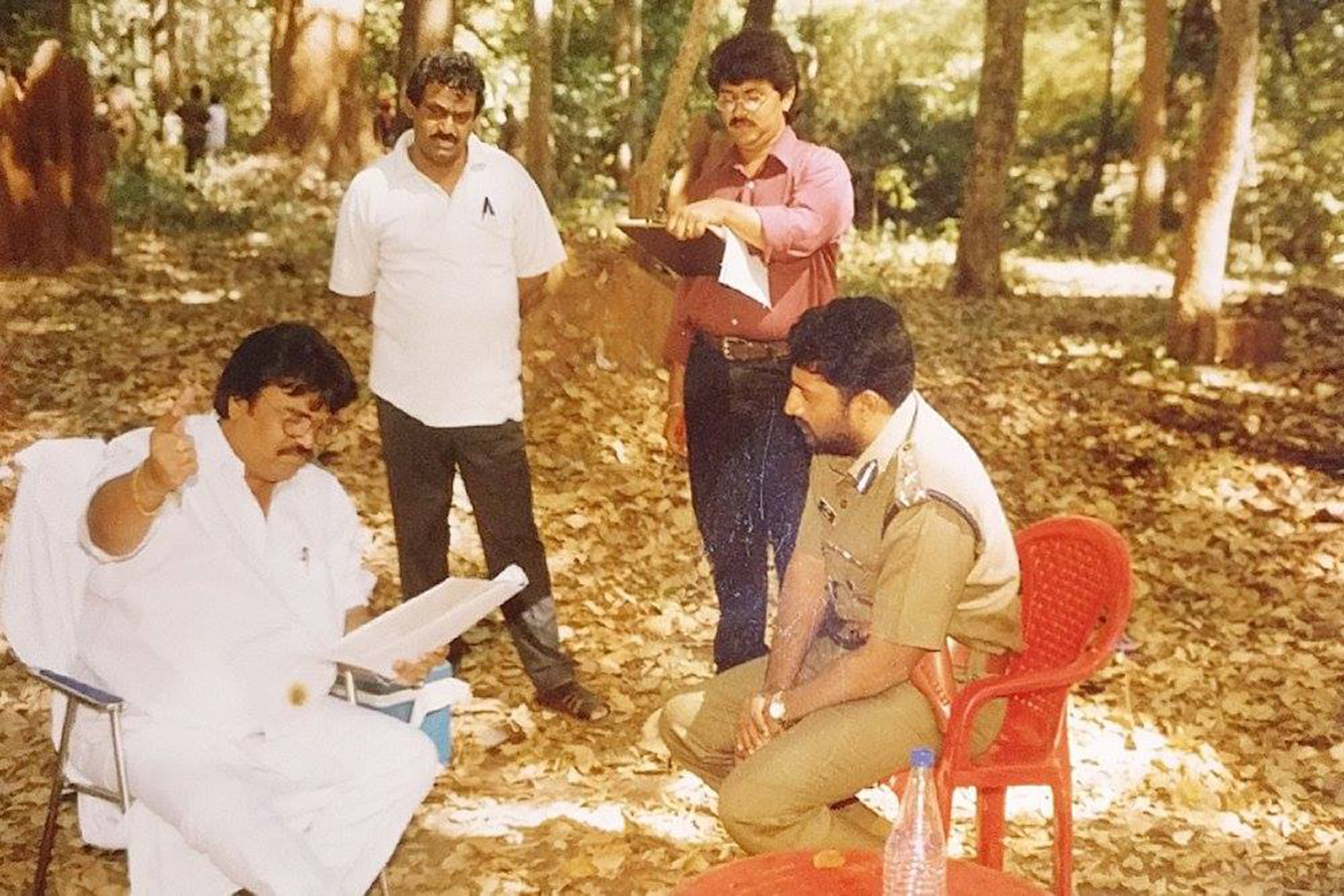 Raj Madiraju assisting Dasari Narayana Rao for Osey Ramulamma in 1995